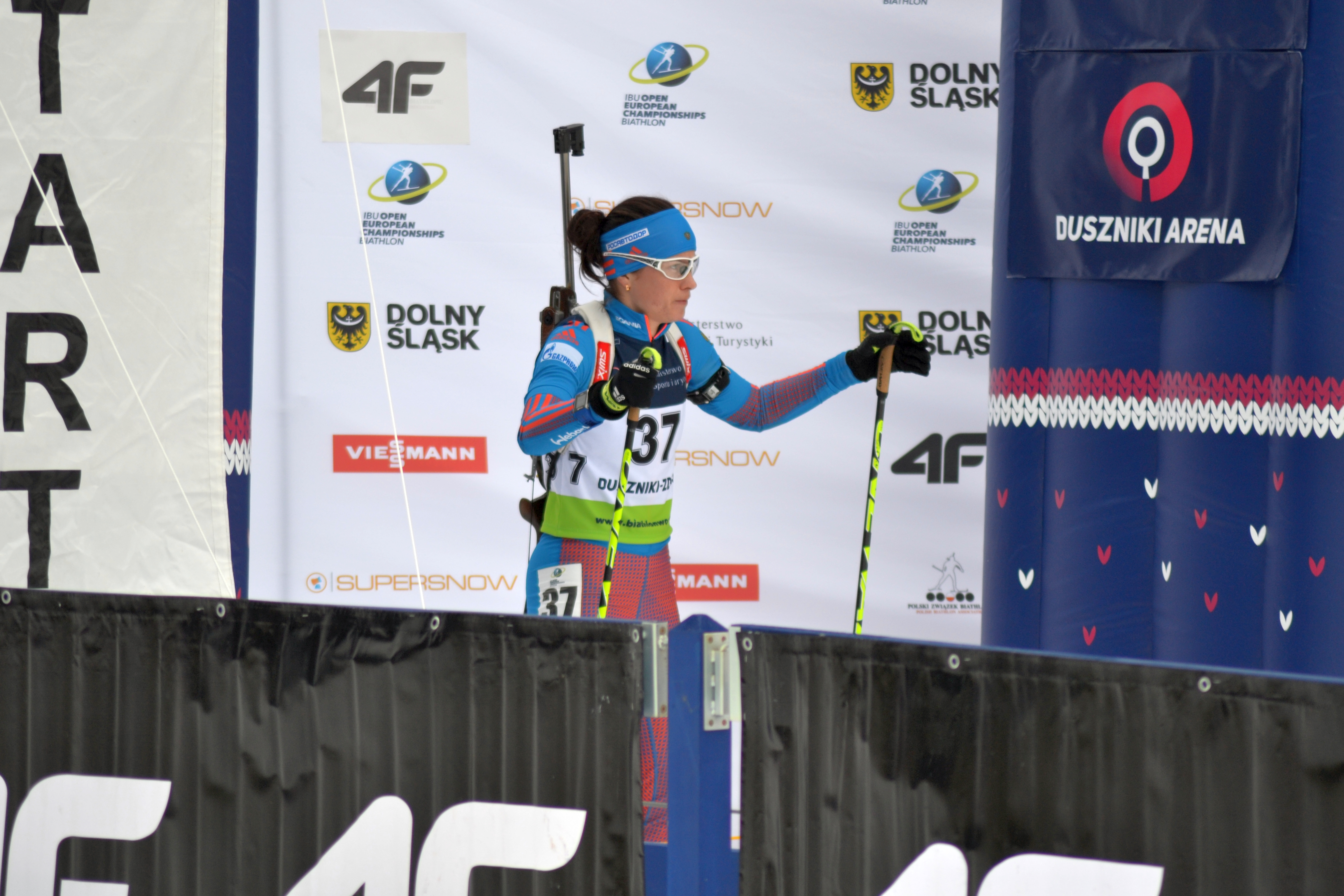 Open European Championships Biathlon 2017, Individual Women's race, held on January 25th.